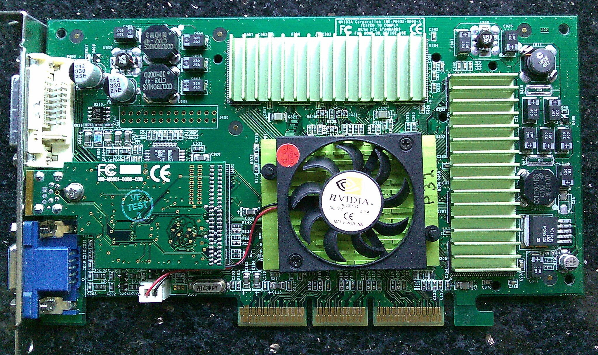 NVIDIA GeForce2 Ultra Graphic card